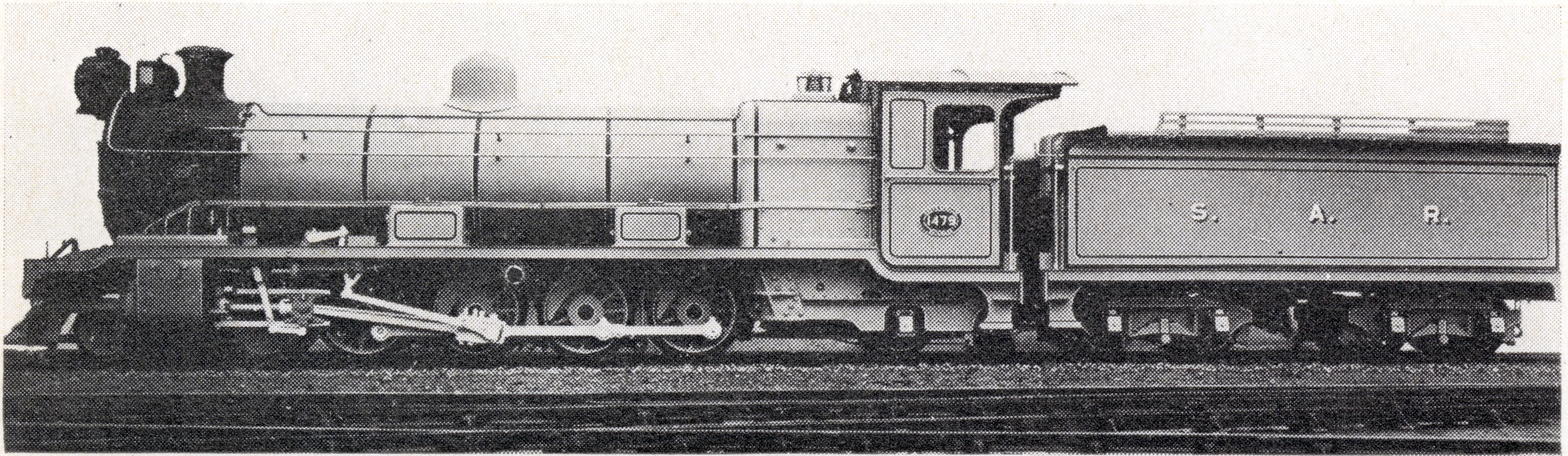 SAR Class 3B 1479 (4-8-2) Builder's works number: NBL 19597/1912